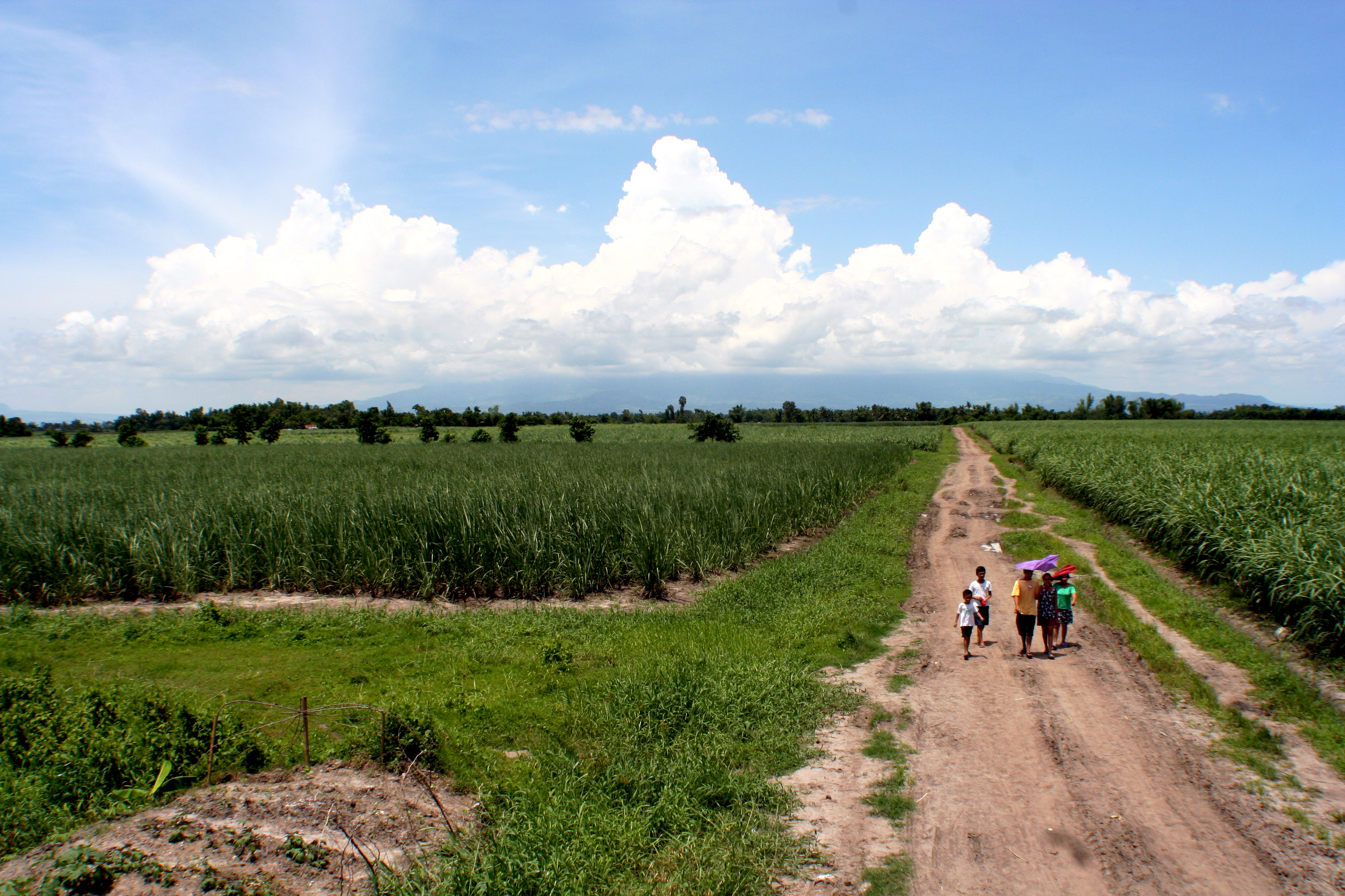 Kanlaon Volcano, the tallest volcano on the island of Negros.